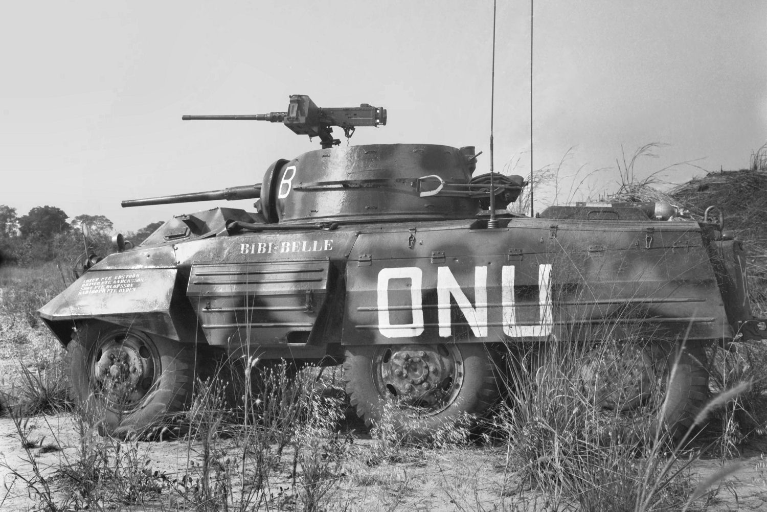 A captured Katangese M 8 Greyhound armoured car used by Swedish UN battalions in the Congo, 1962-1964.